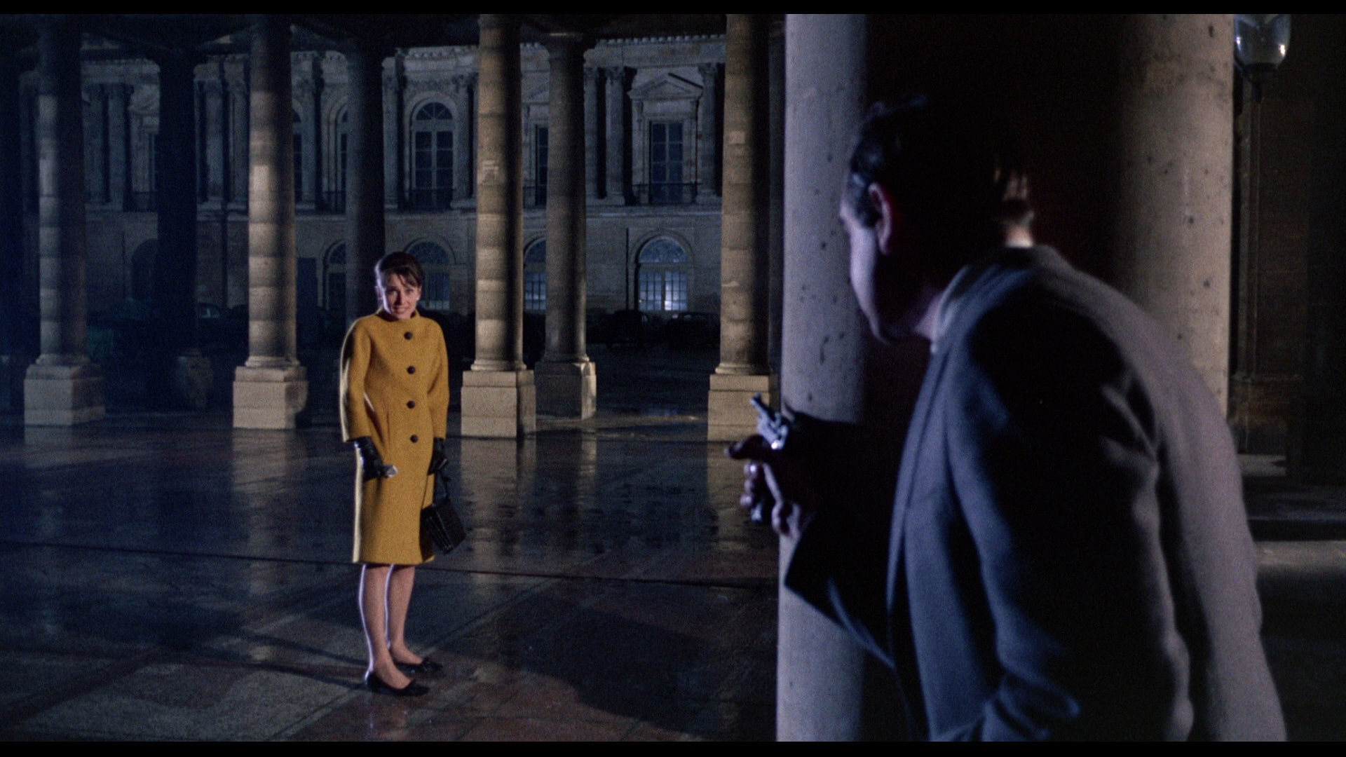 A screenshot from the film Charade (1963)